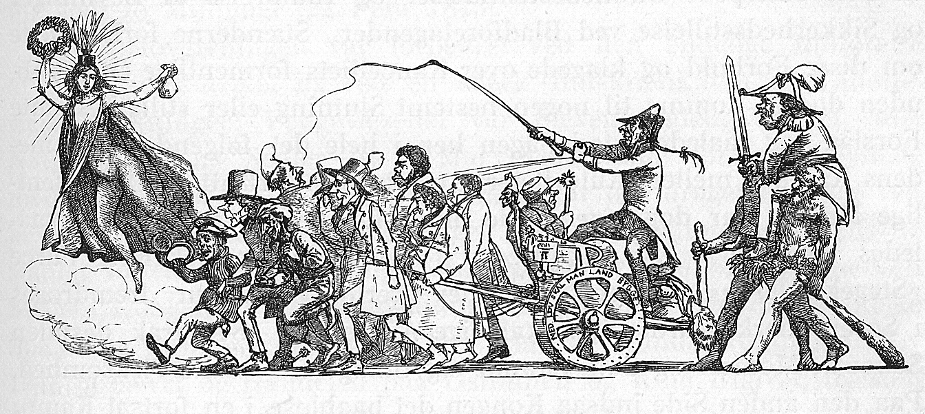 The Triumph of Censorship. Drawing by W. Marstrand from 1843. The original is located in the art collection at Frederiksborg Palace. .